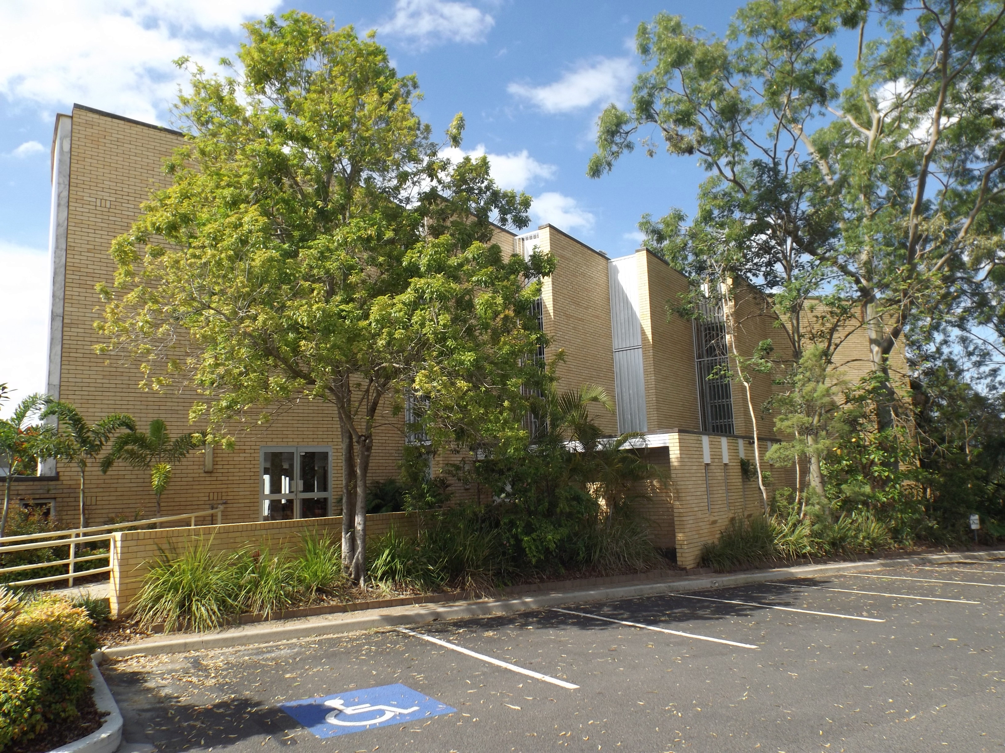 Photo of the side of Chapel building at St Peter's Lutheran College in Indooroopilly, Brisbane, Queensland, Australia.